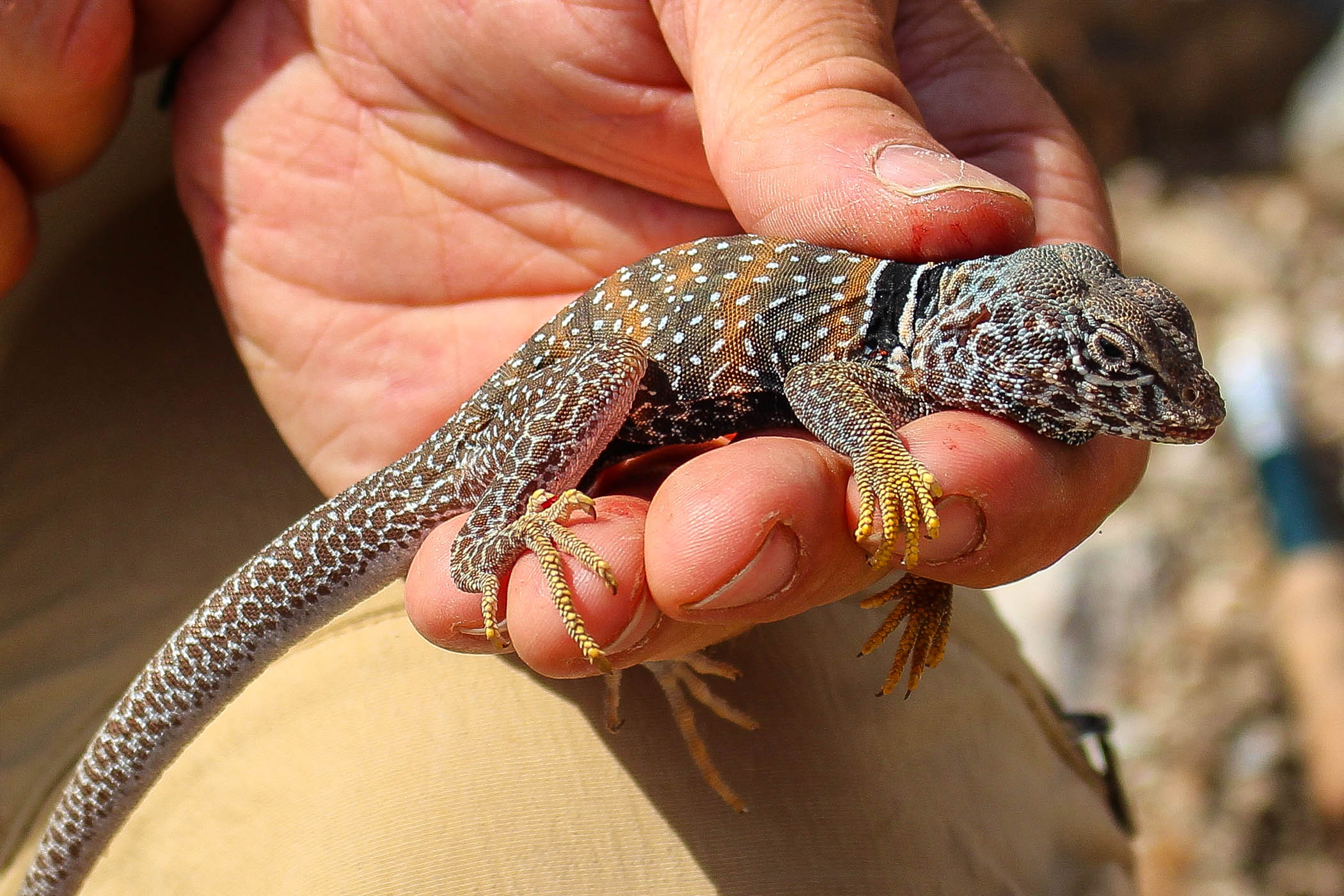 A male Great Basin collared lizard, captured with a noose on the 2015 Sacramento City College Mojave trip